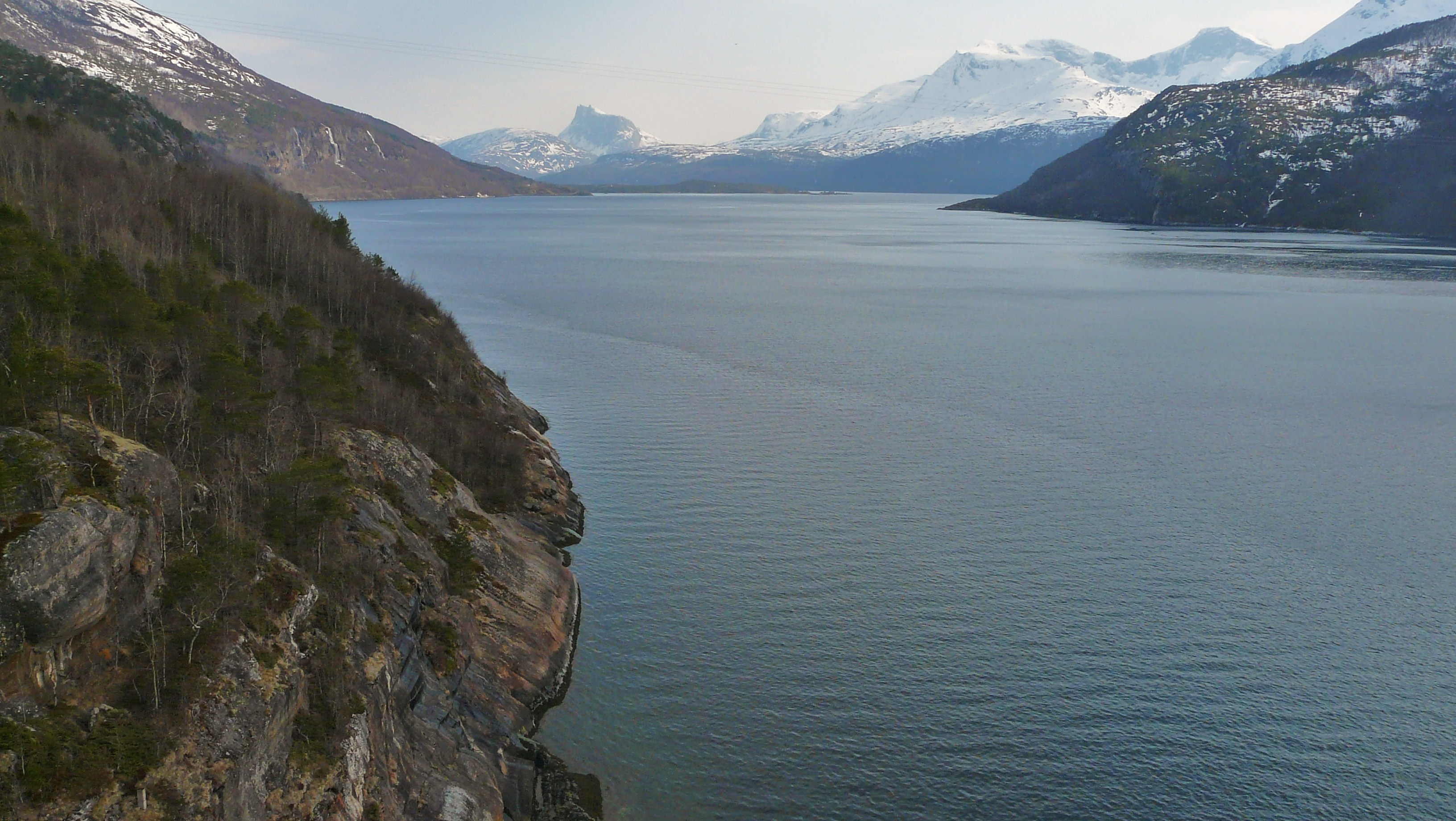 A view to Skjomen towards south from the eastern head of Skjombrua in 2009 May.